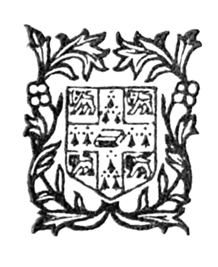 Logo on the front cover of The Victorian Age by William Ralph Inge. Used by Cambridge University Press.